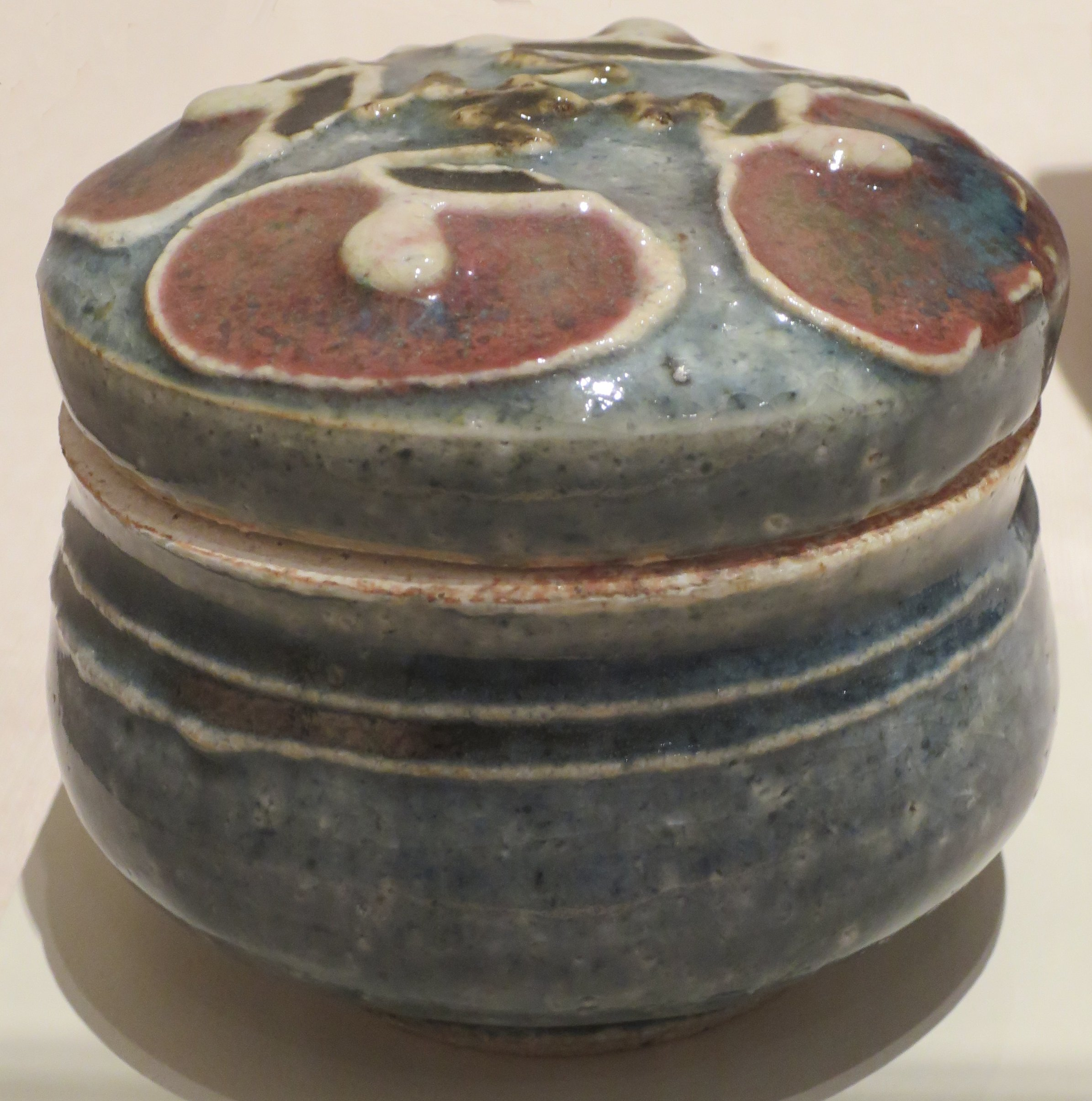 Round lidded box by Kawai Kanjirō (1890-1966), stoneware, Honolulu Museum of Art